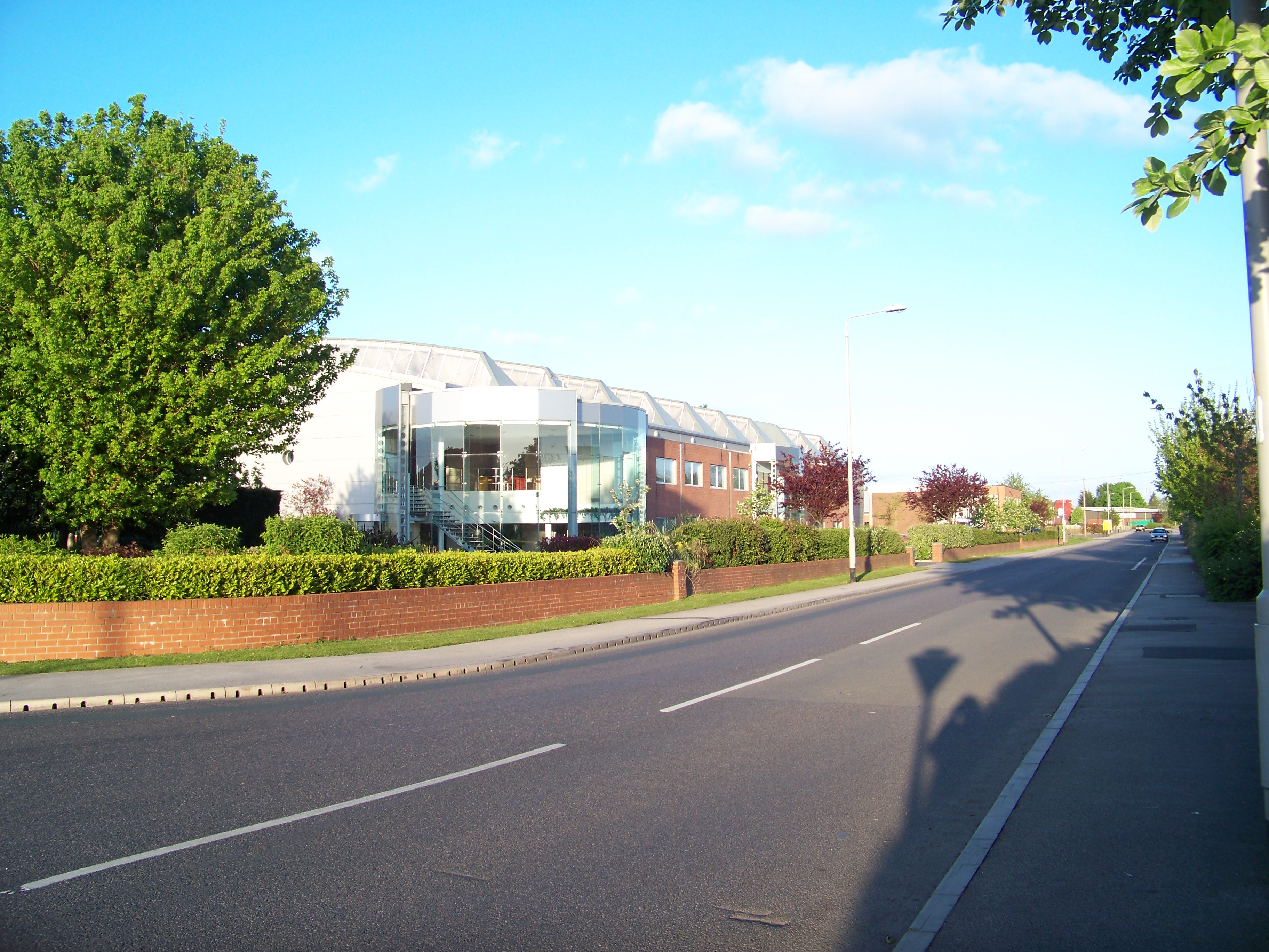 The Goldenfry Factory on Sanbeck Way on the Sandbeck Inductrial Estate in Wetherby, West Yorkshire, UK. Taken on the 11th May 09.